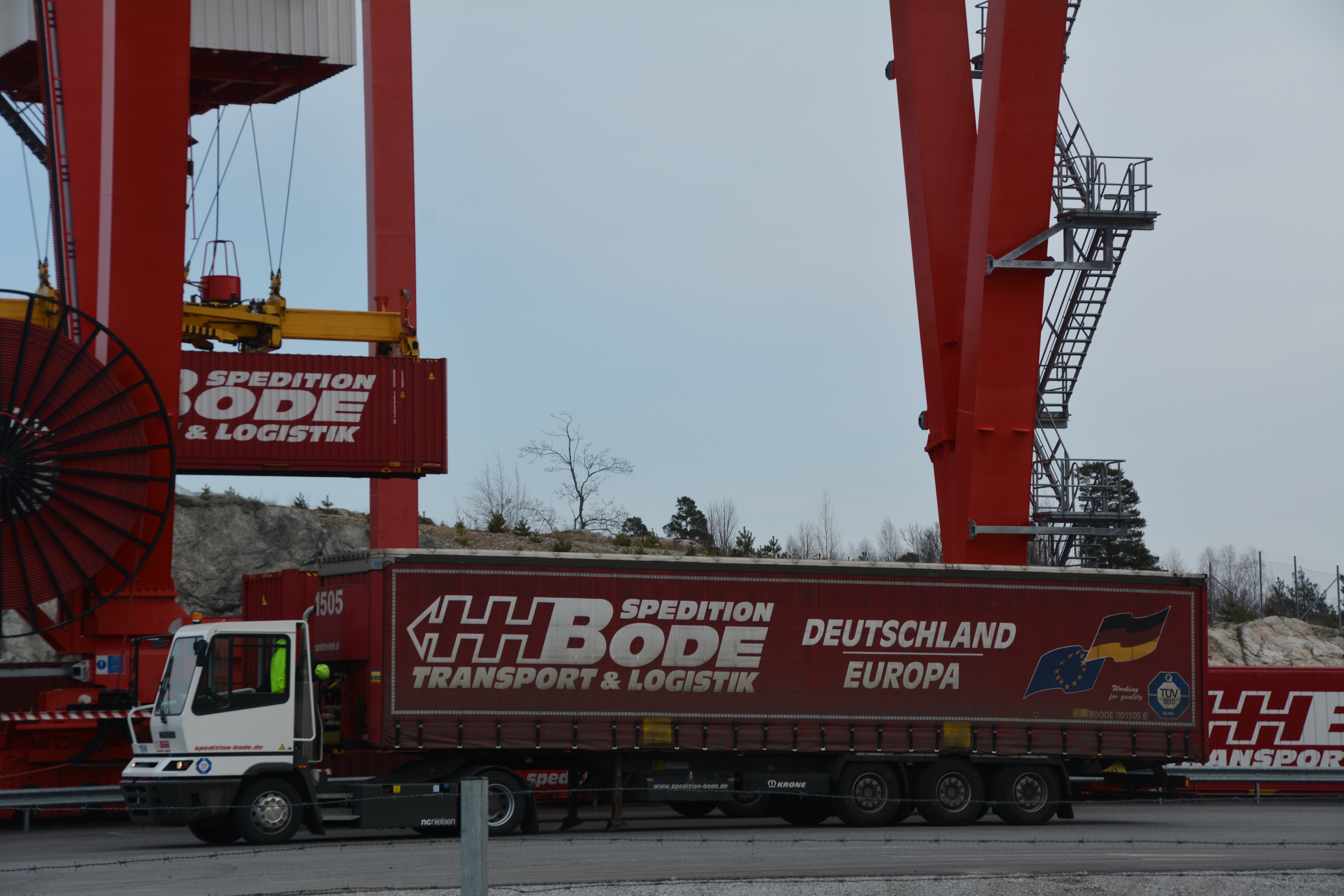 Terberg terminal tractor, Stockholm Nord Container Terminal, Sweden